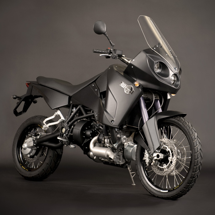 Track T-800 CDI Diesel motorcycle